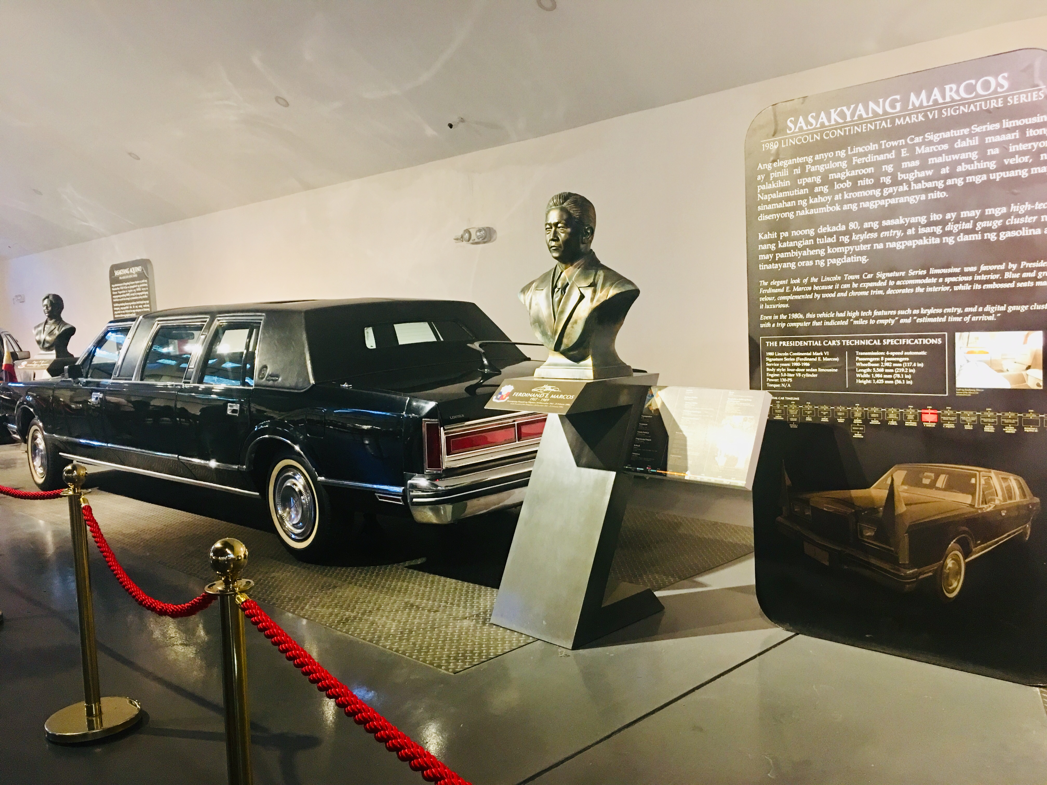 Presidential car of Ferdinand Marcos